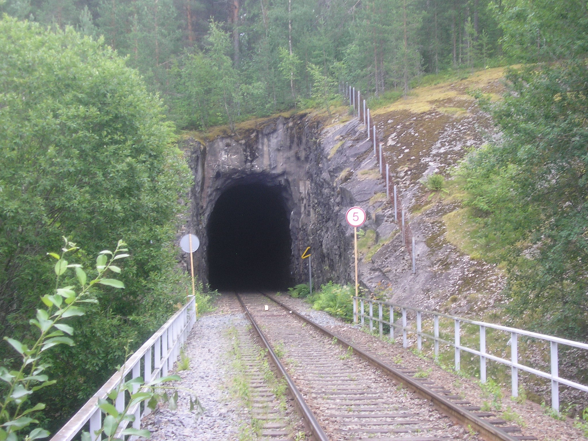 Kyrönniemi tunnel in Savonlinna, Finland